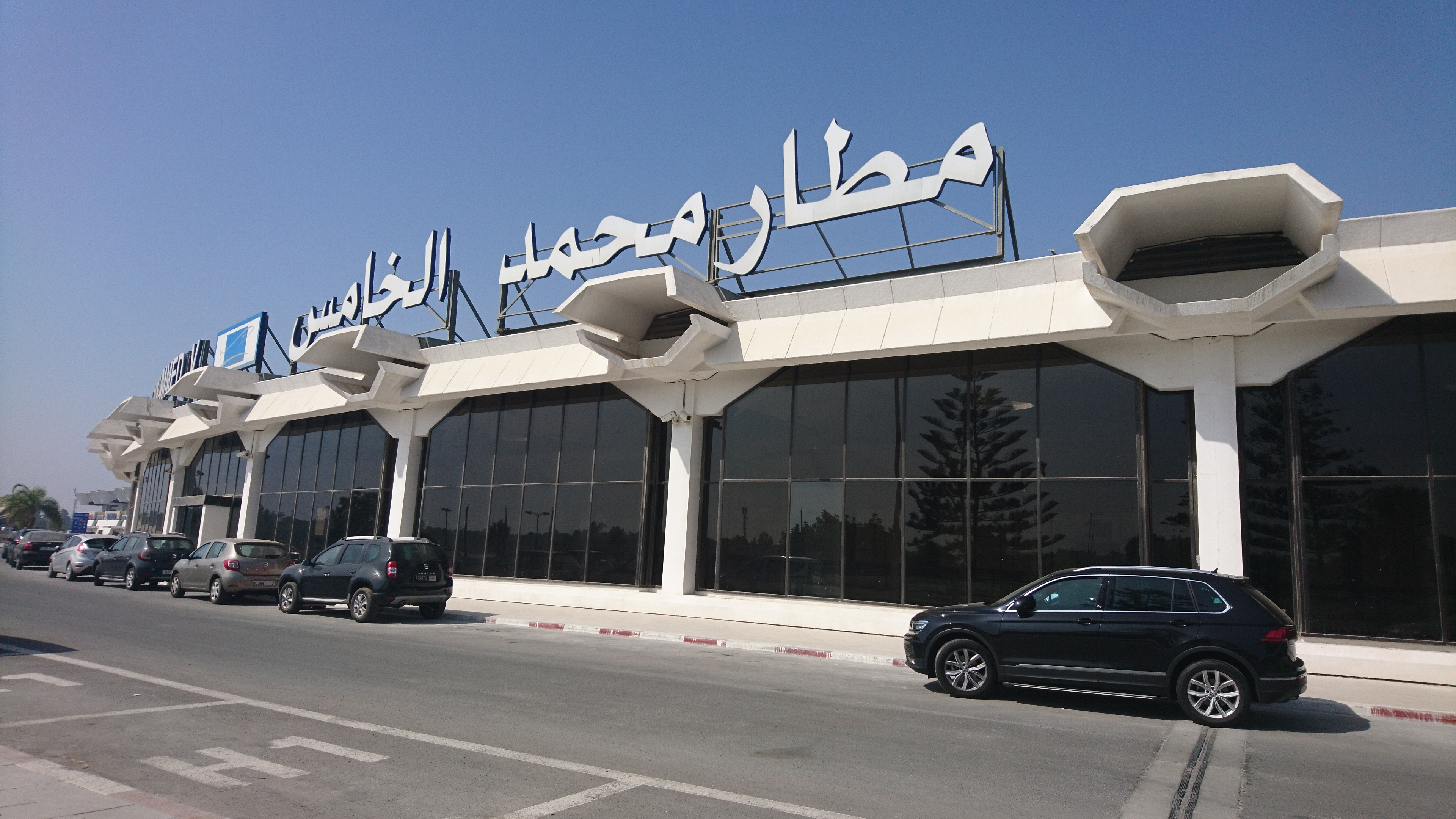 Entrance of Mohamed V international Airport in Casablanca, Morocco